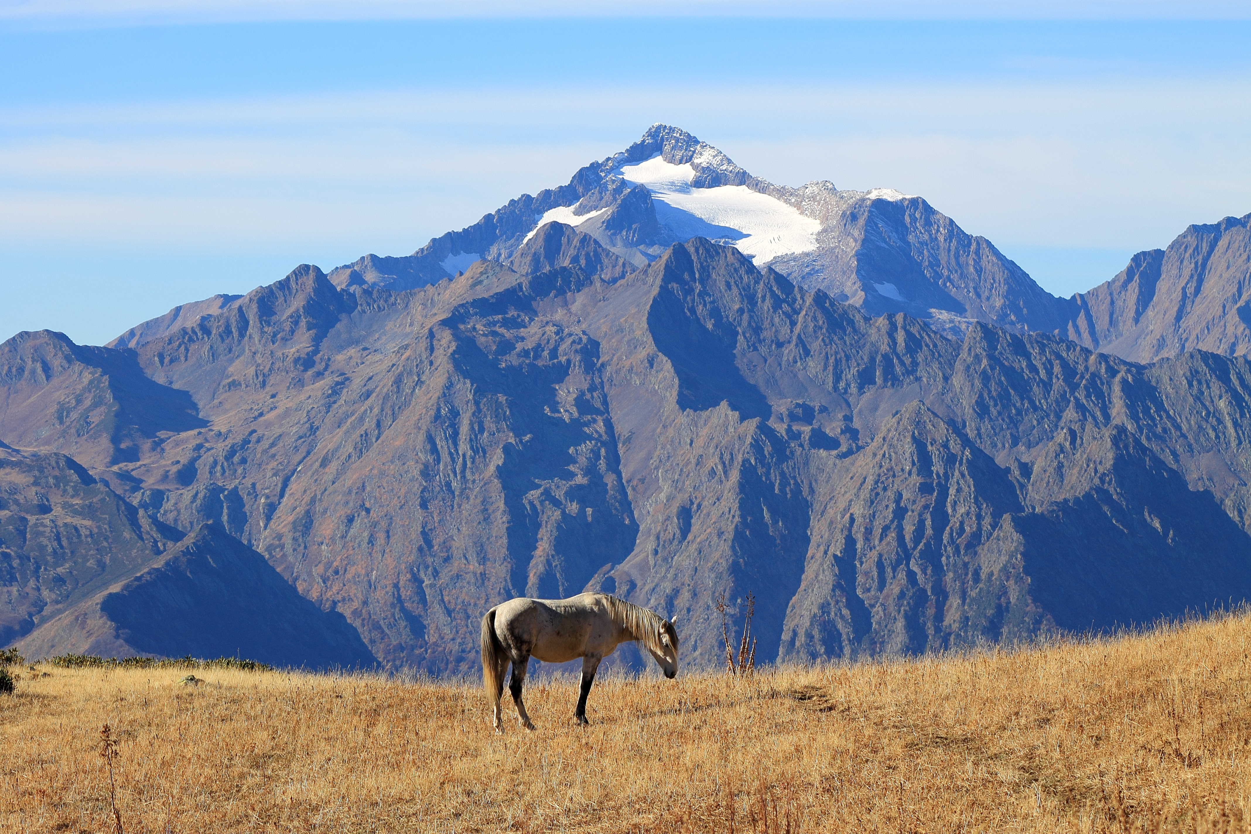 Pasture in mountains near Krasnaya Polyana, Sochi. On a background Mount Chugush. November 2015.